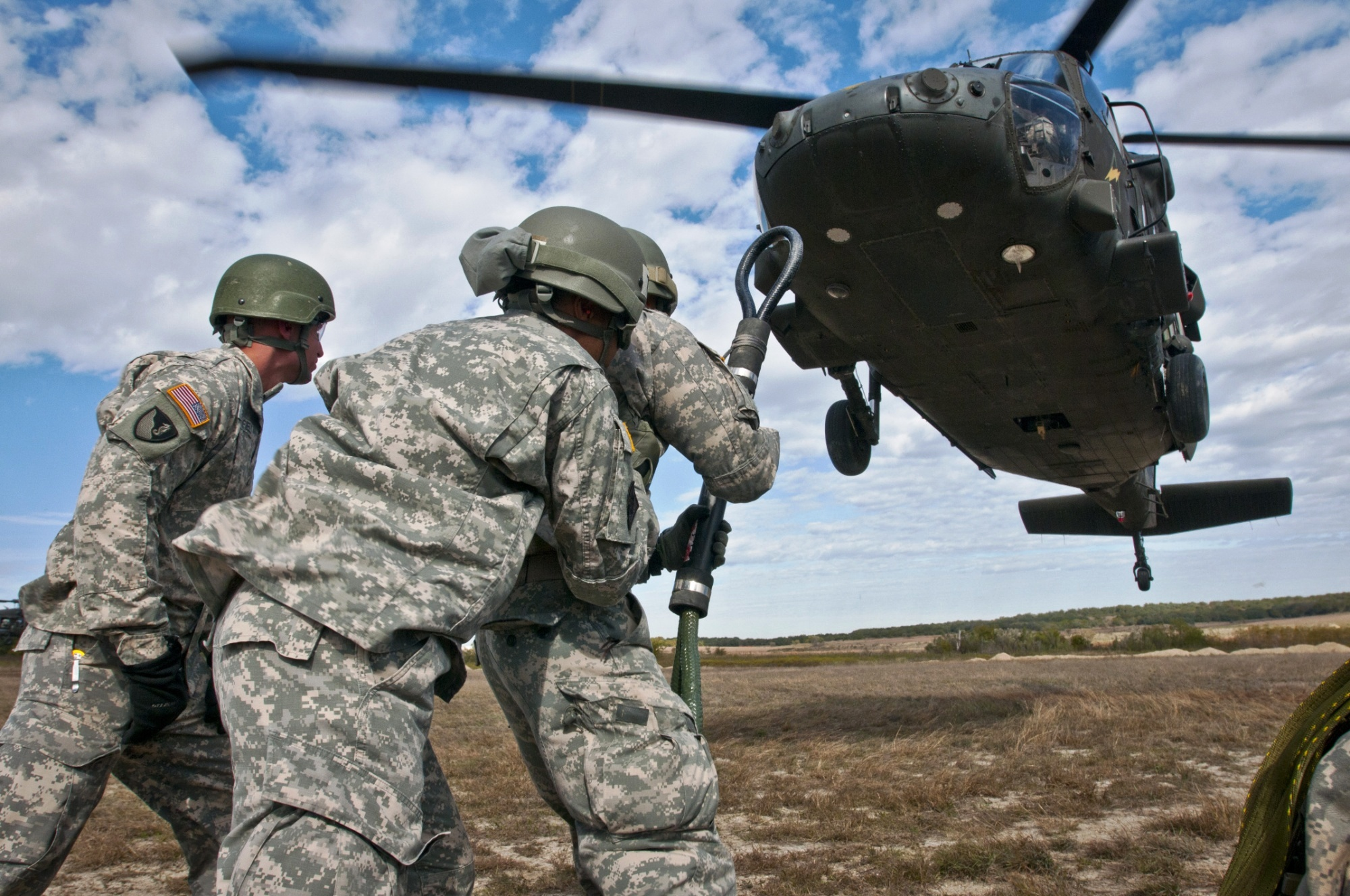 U.S. Army Air Assault School sling-load practical examImage caption: Students of the Fort Hood Air Assault School brace against the prop wash of a UH-60 Black Hawk as they prepare to attach a sling-load during testing for class 02-14.